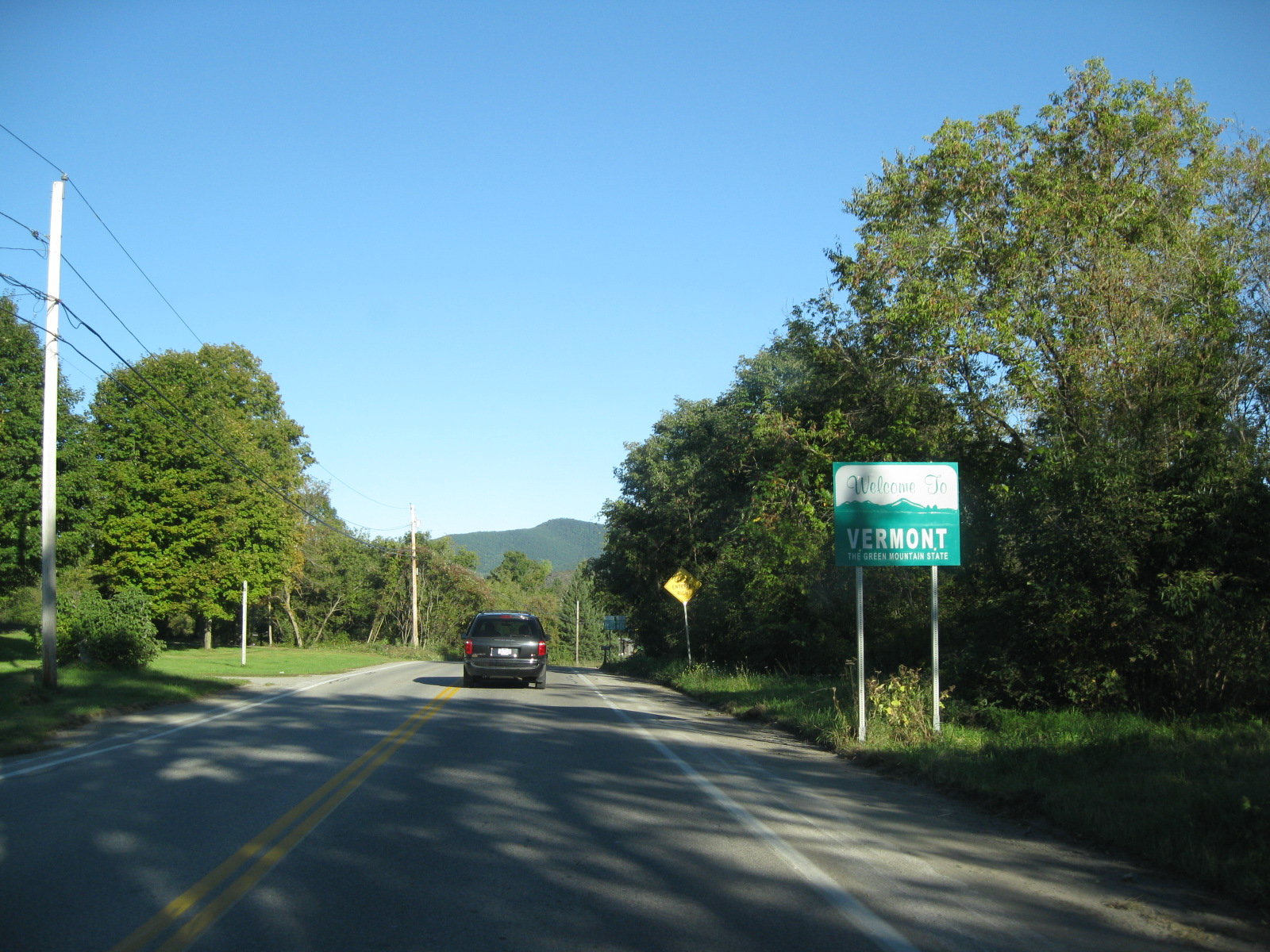 New York State Route 149 at the Vermont state line.